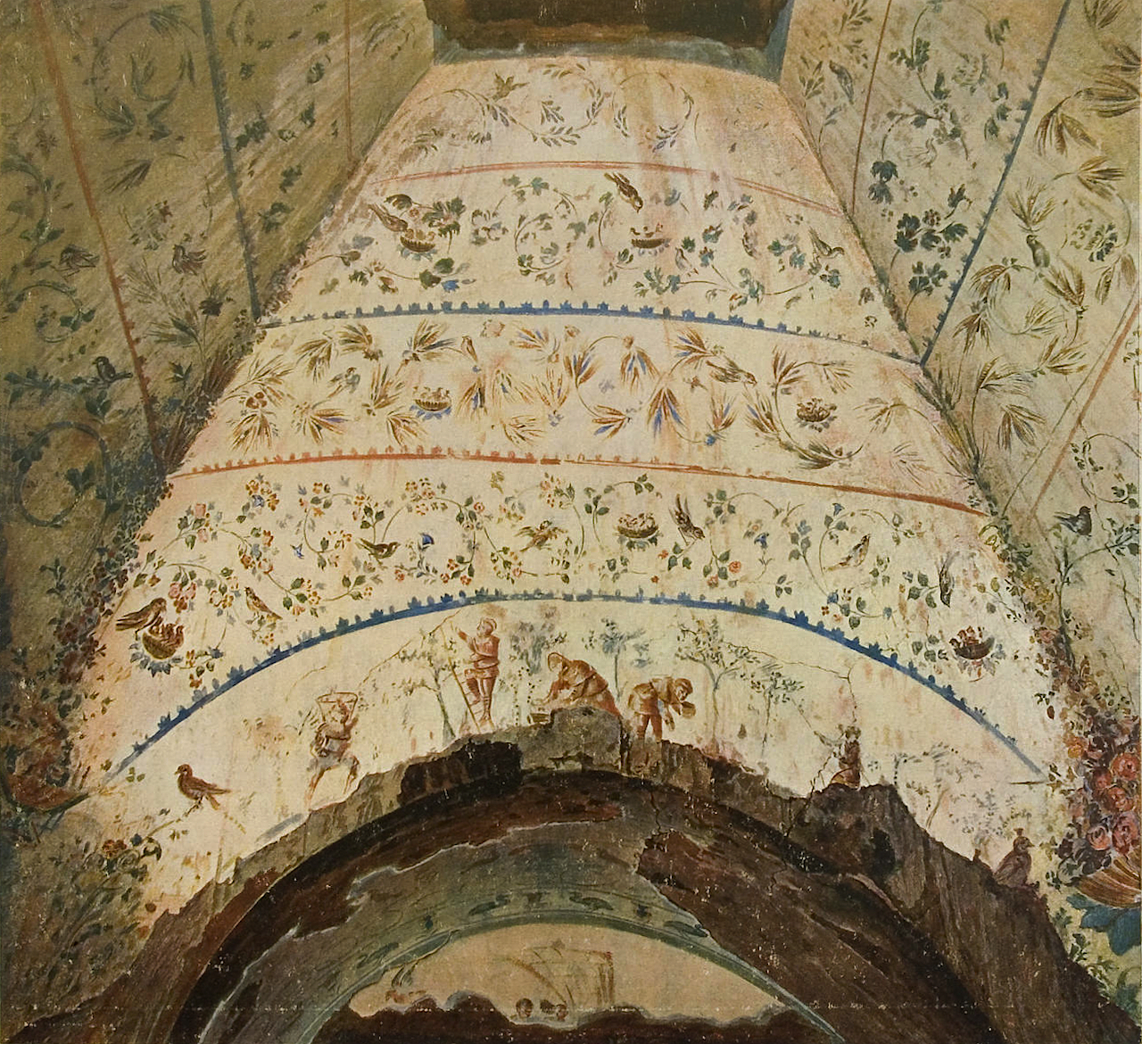 Praetextatus Catacombs